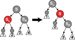 Produced by Derrick Coetzee in Illustrator and Photoshop for the red-black tree page. Size reduced with pngcrush.